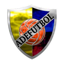 Escudo seleccion colombia 1962